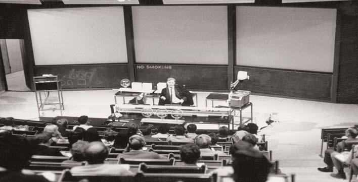 Professor Peter Mason Delivers First Lecture Macquarie University Photography